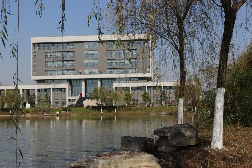 Library of CPU